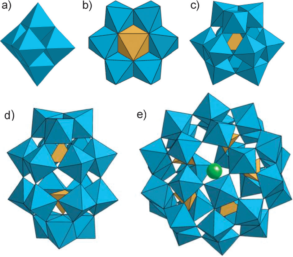 The most common polyoxometalates